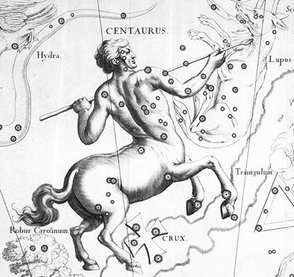 Constallation of Centaurus from Uranographia.